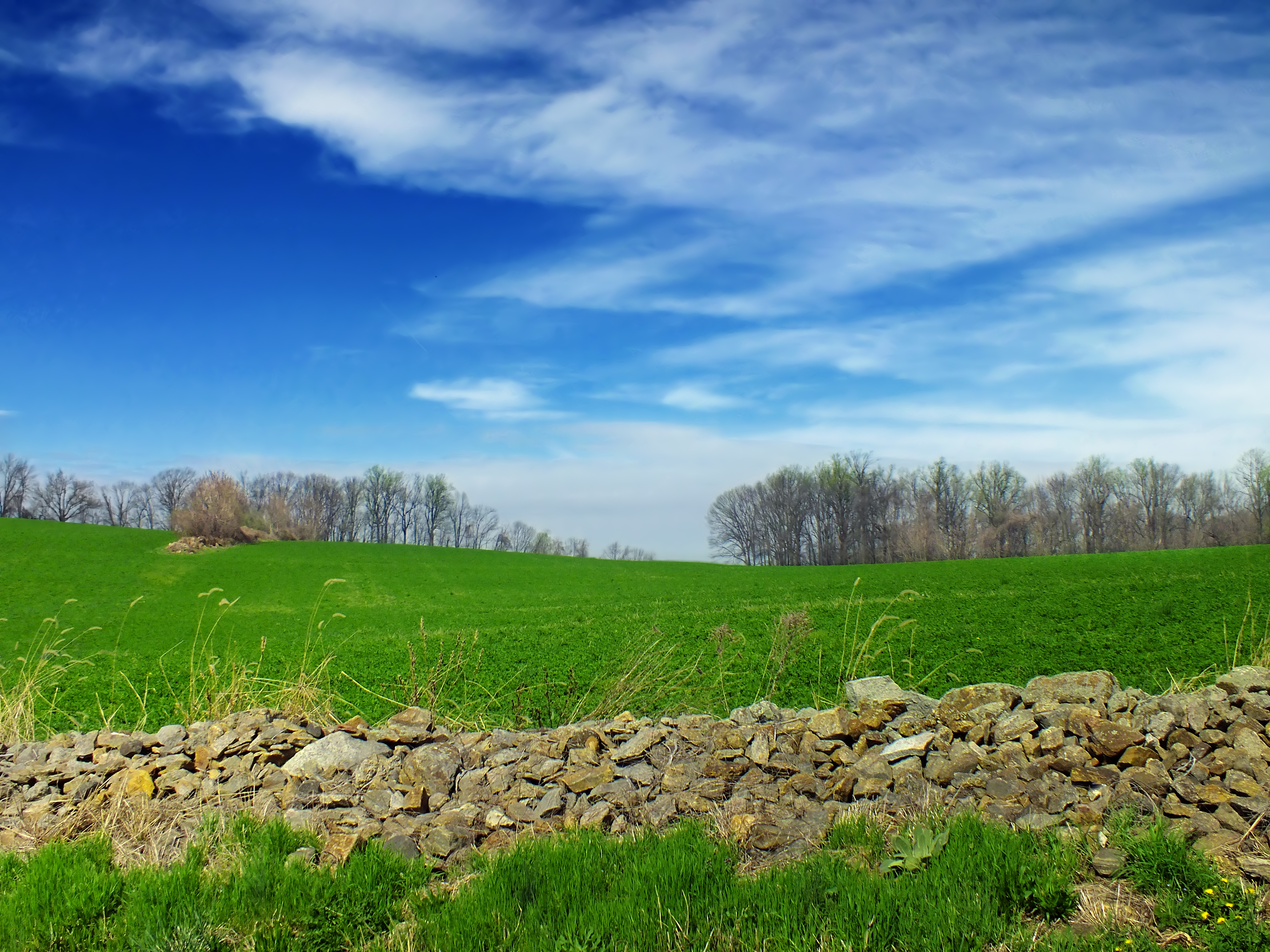 Field and stone fence, Alsace Township, Berks County.